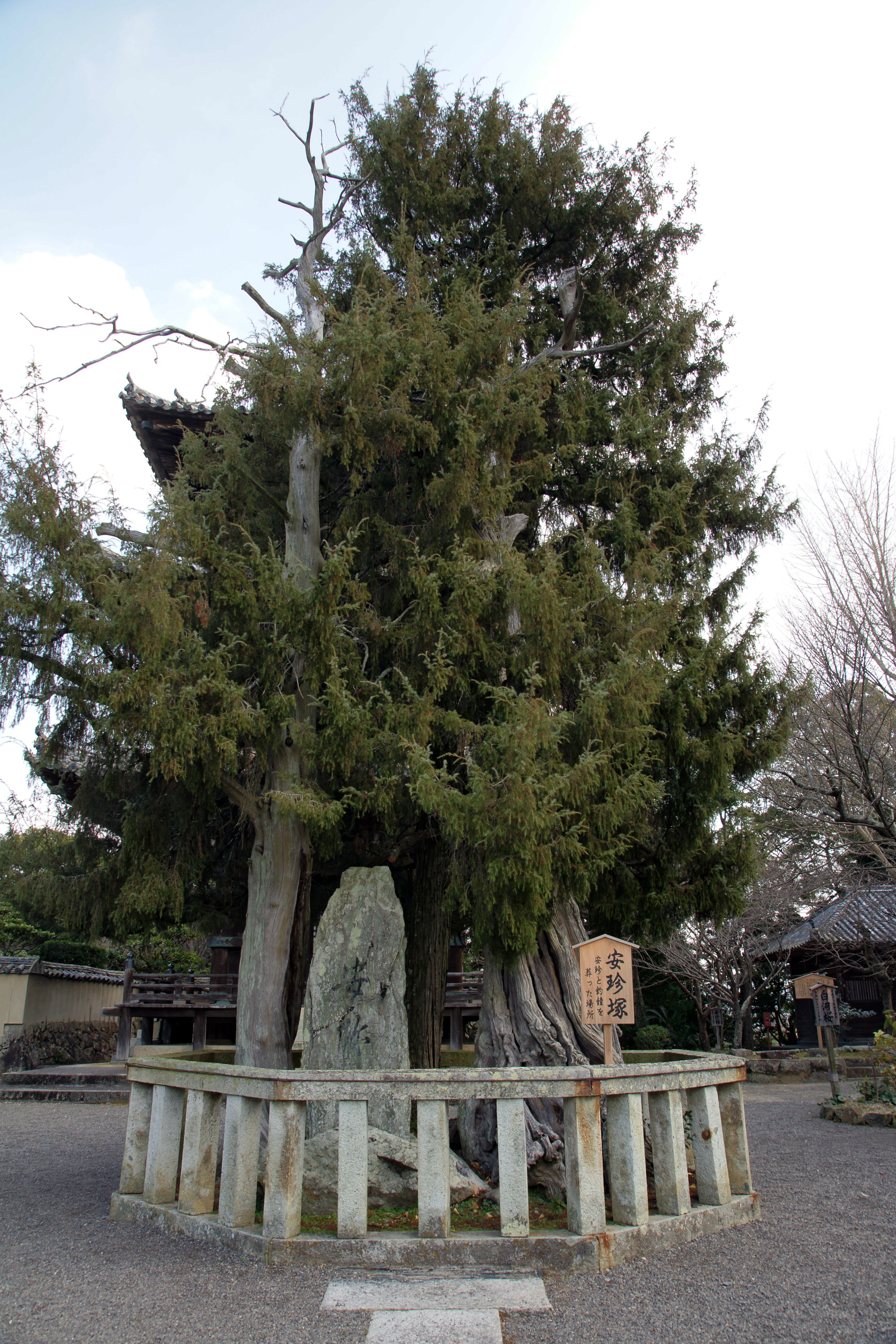 Dojoji, Hidakagawa, Wakayama prefecture, Japan